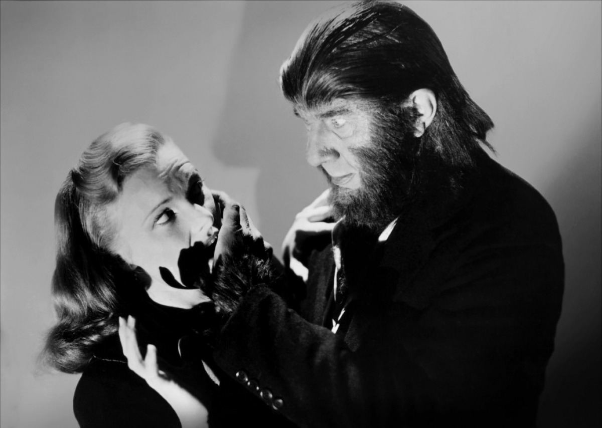 Louise Currie and Béla Lugosi in The Ape Man (1943) - publicity still